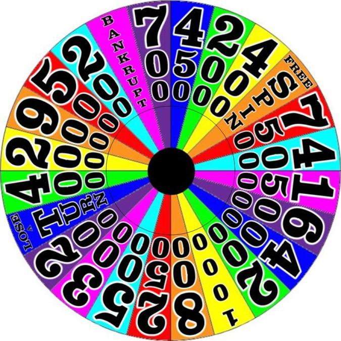 Round one of the final version of the British Wheel of Fortune.